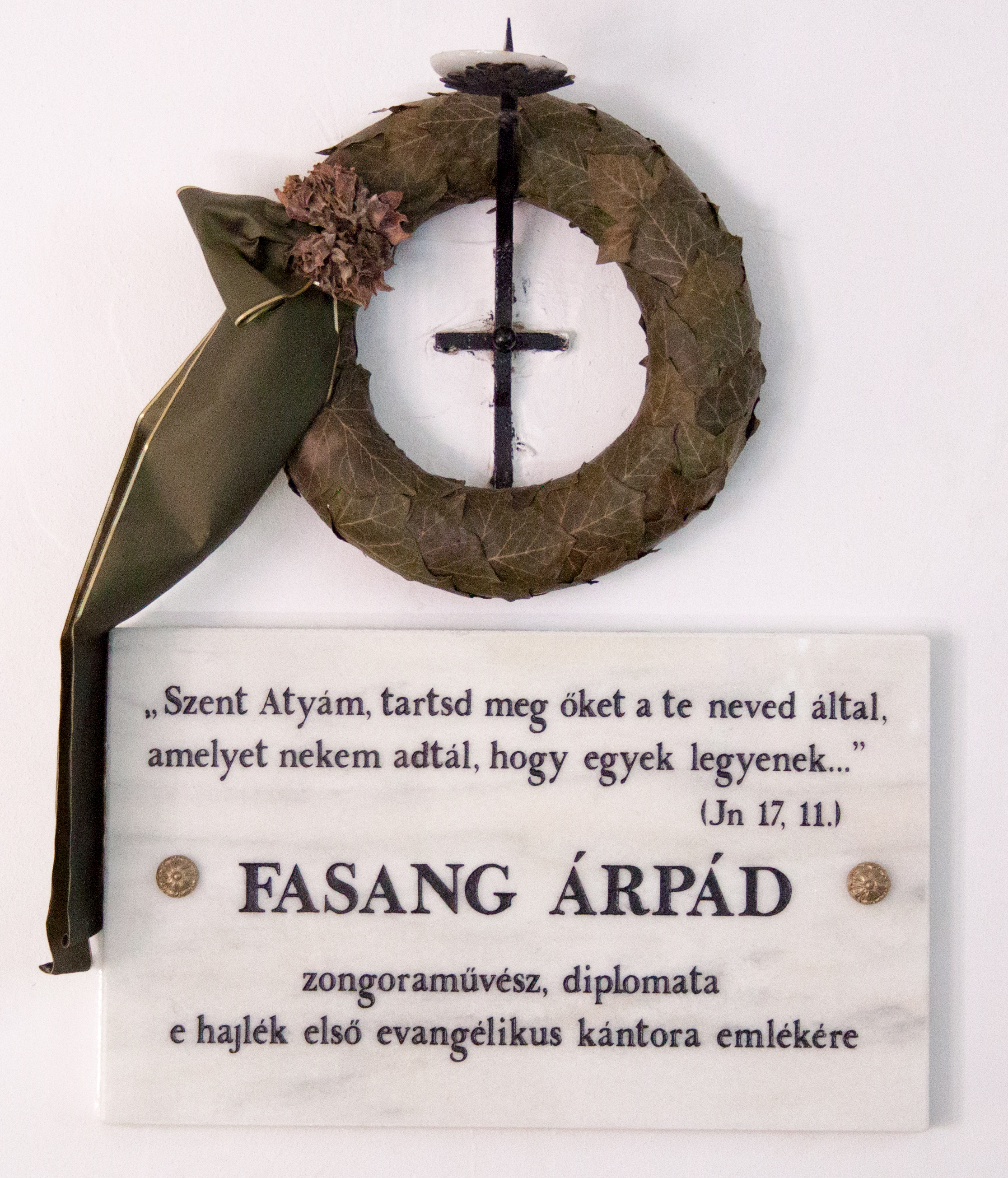 Commemorative plaque of Árpád Fasang in the Galyatető Roman Catholic church